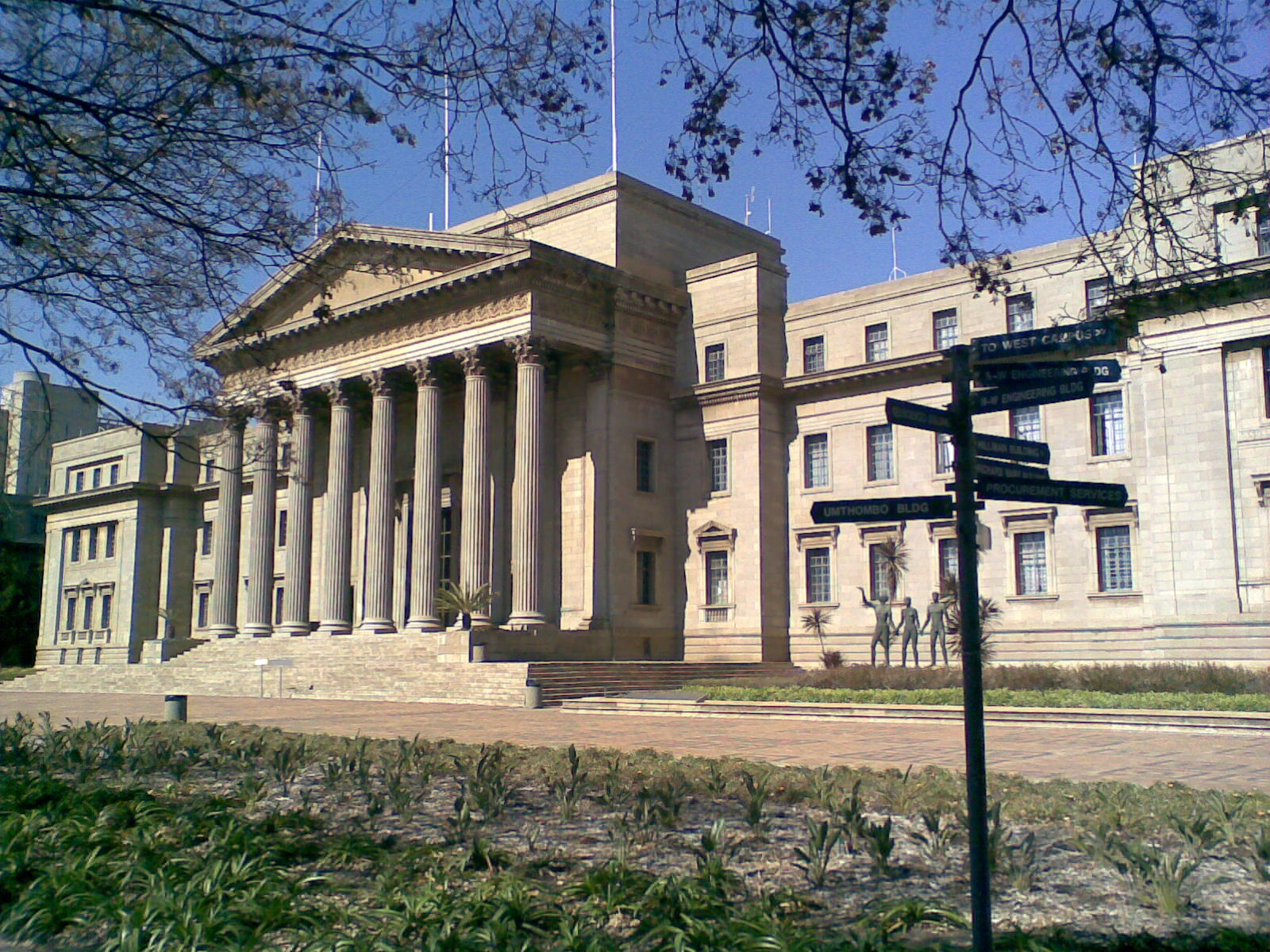 Author: Samuel Molepo, Source: Self Captured. Great Hall of Wits on East Campus.